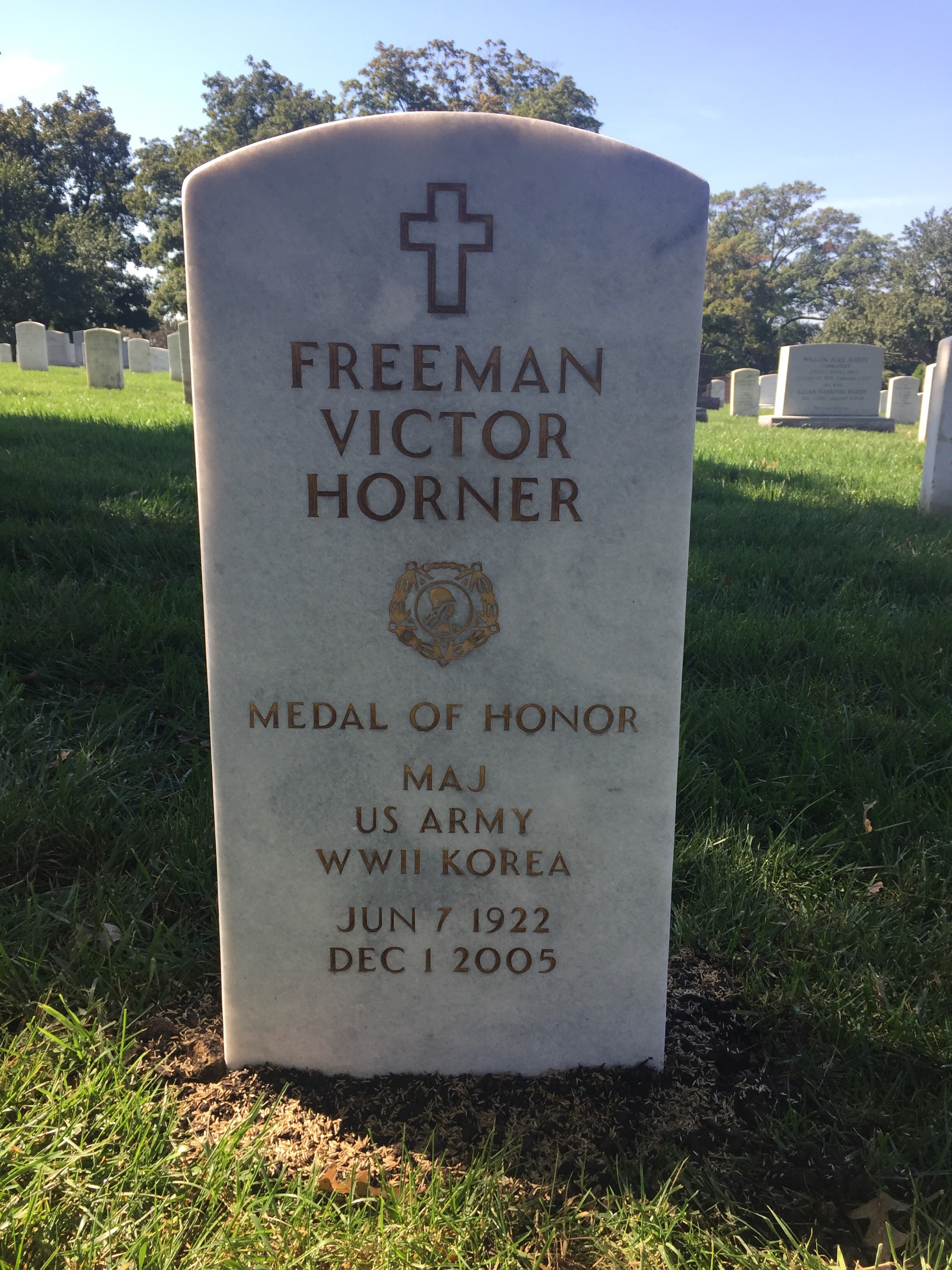 Grave of Freeman V. Horner at Arlington National Cemetery